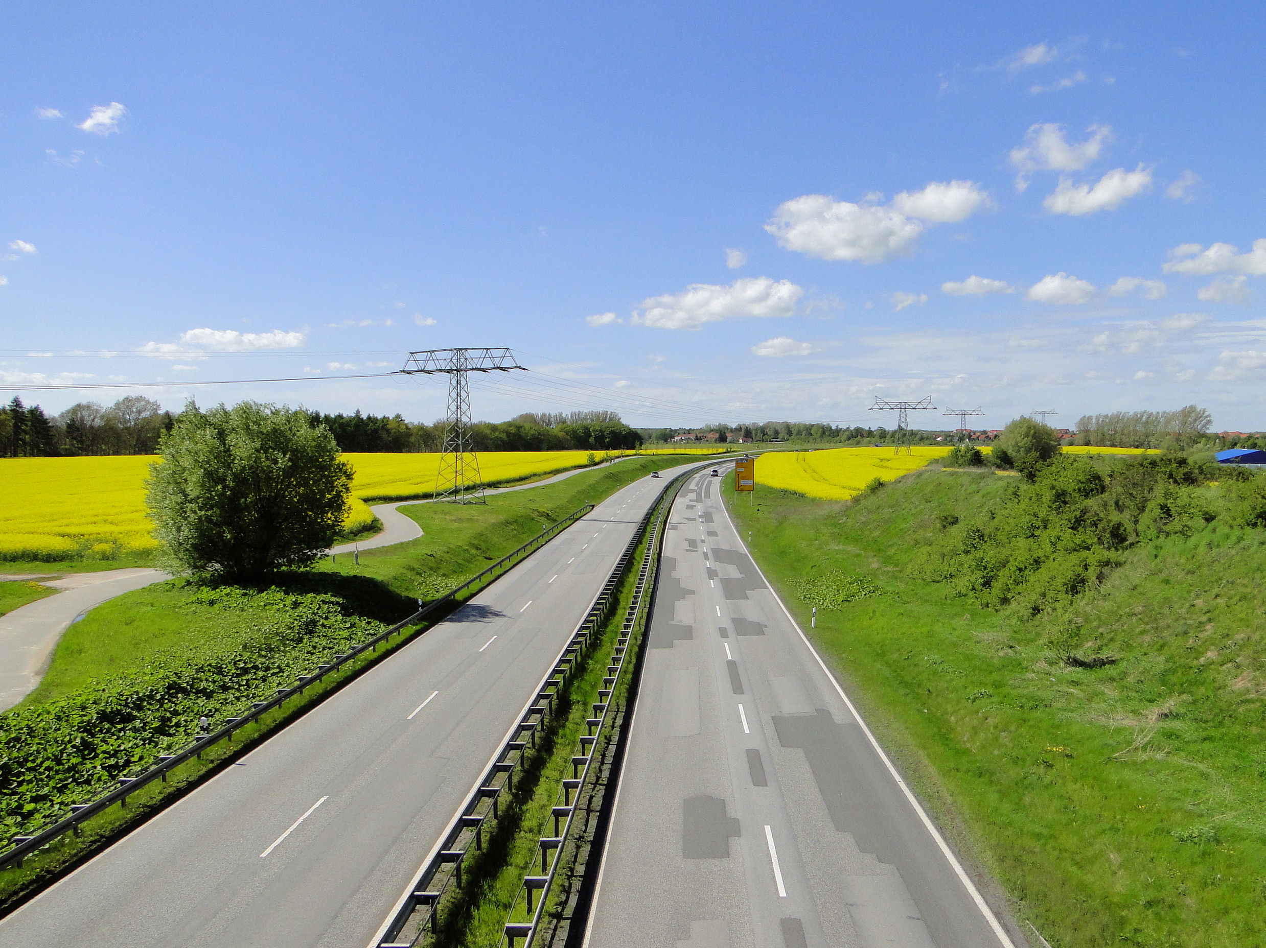 Bypass road (B 106) and rapeseed fields in Schwerin, Mecklenburg-Vorpommern, Germany